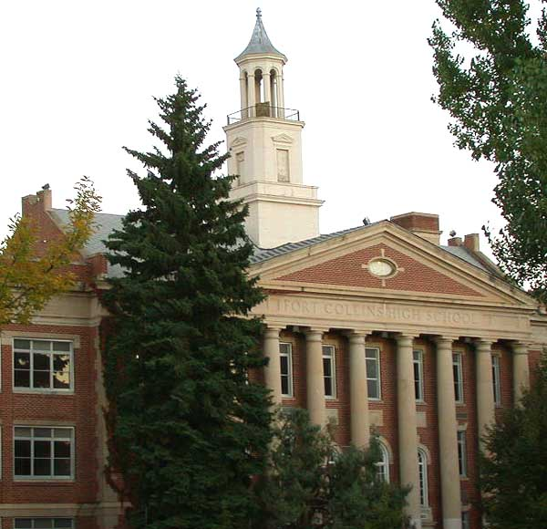 Old Fort Collins High School in Fort Collins, Colorado, now part of Colorado State University (taken Oct. 8, 2004) Â© 2004 Matthew Trump